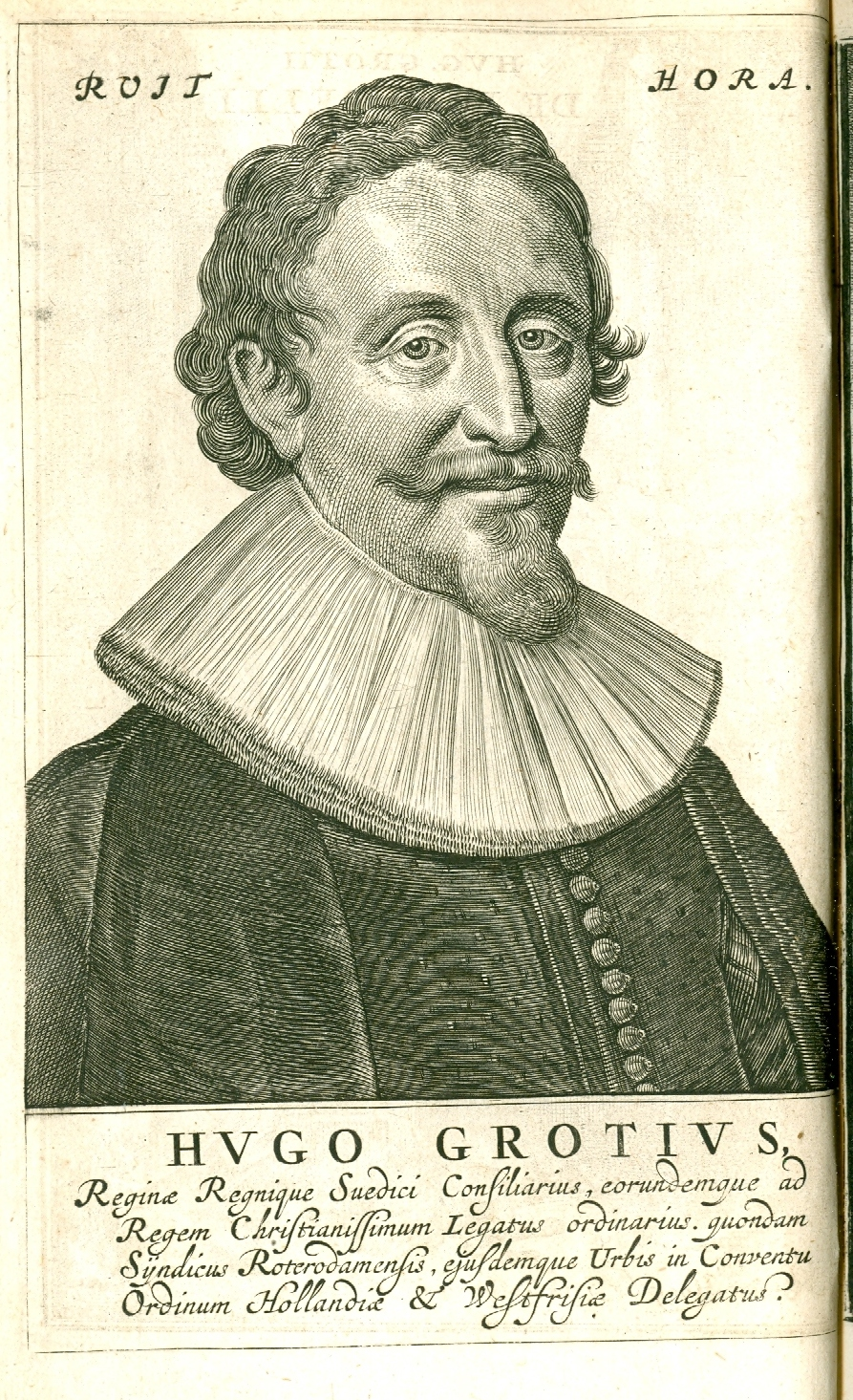 Hugo Grotius